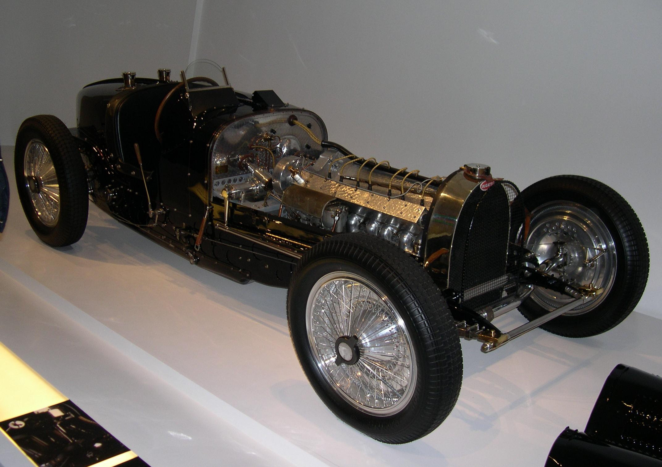 1933 Bugatti Type 59 Grand Prix From the Ralph Lauren collection on display at the Boston Museum of Fine Arts. Photo taken in 2005.